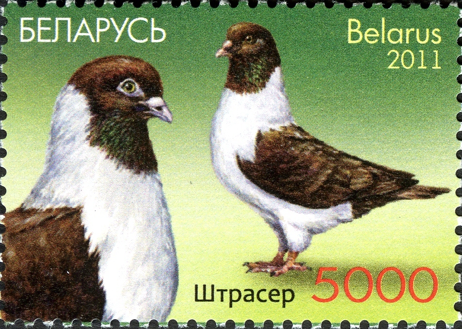 Stamp of Belarus